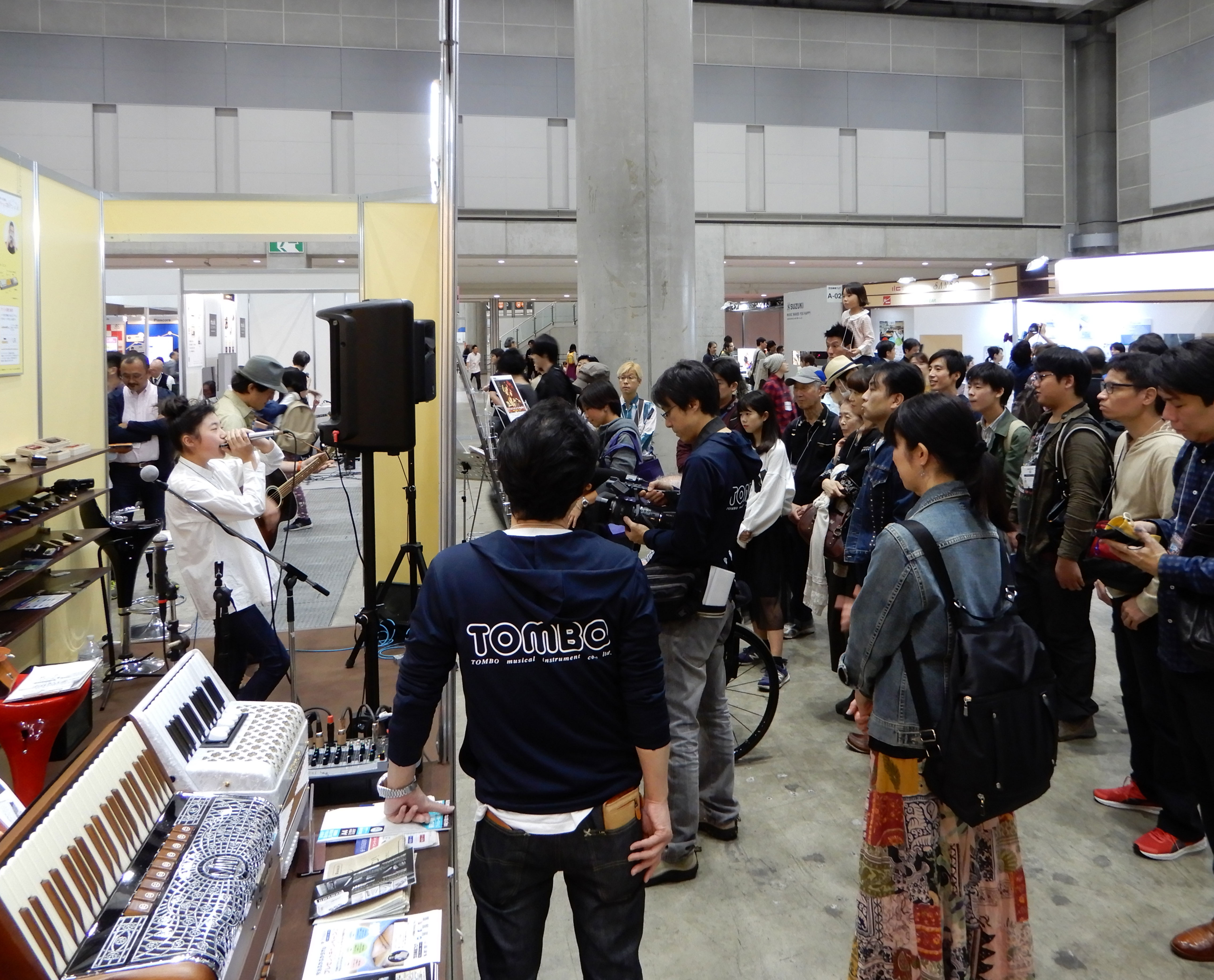 Taken at Musical Instruments Fair Japan 2018. 中文（中国大陆）: 拍照地点 2018年日本东京国际乐器展